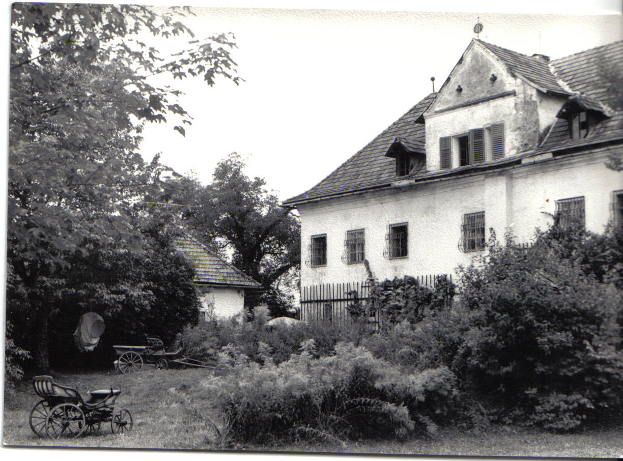 "Tonhof" from composer Gerhard Lampersberg at 1968 (private photograph by Renate Spitzner)